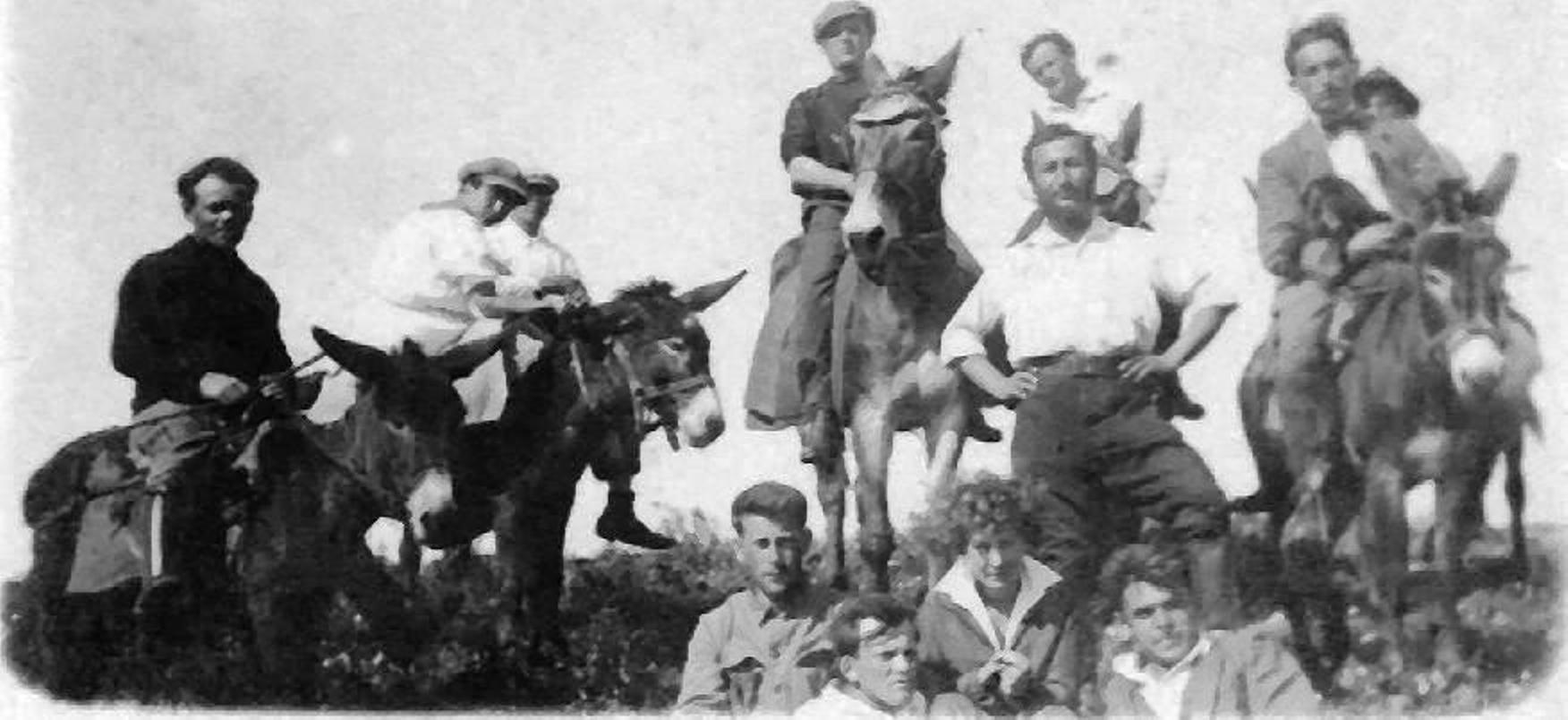 Group of workers - pioneers in gaמ-Shmuel 1913